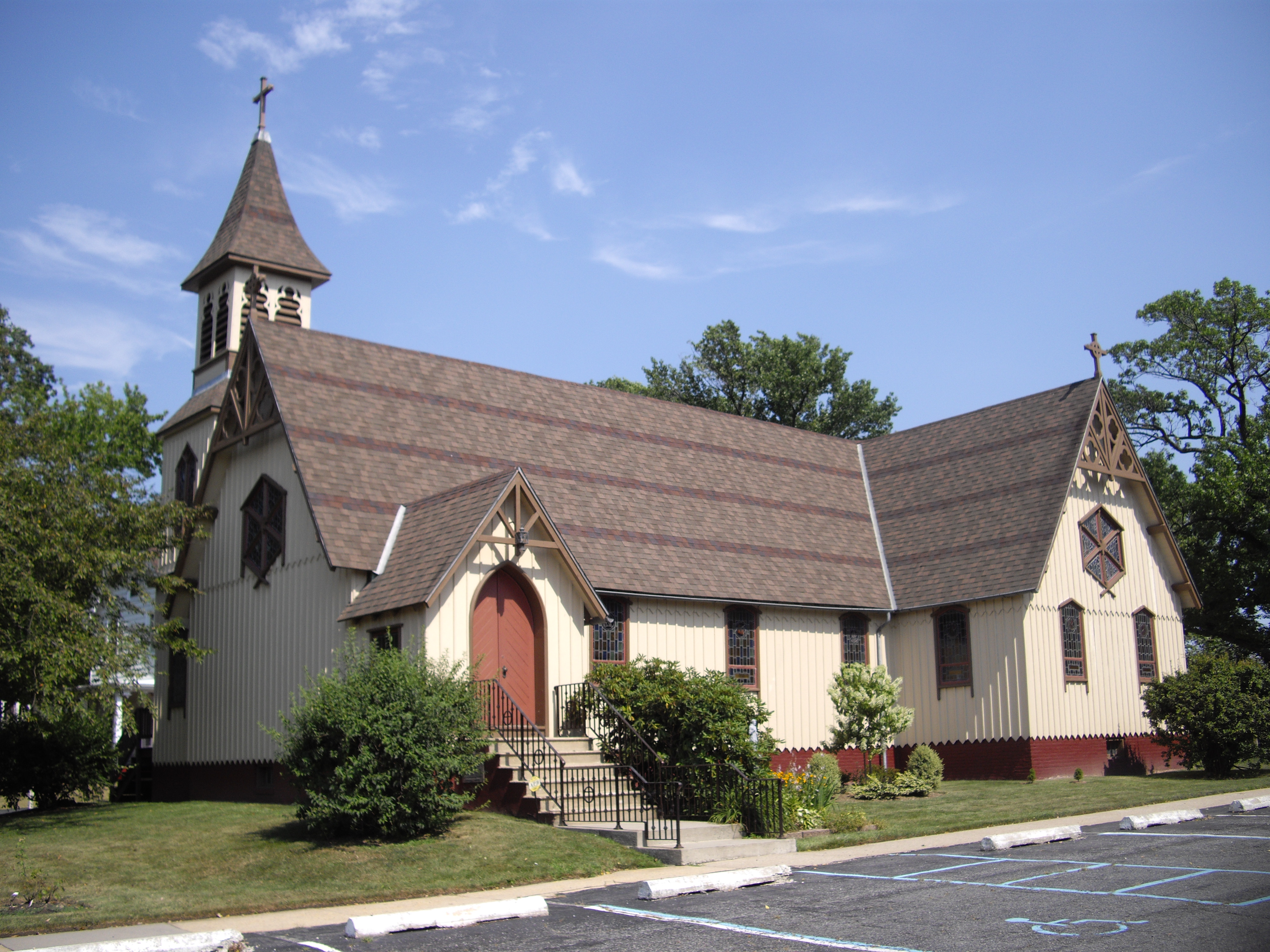 St Albans church, Staten Island